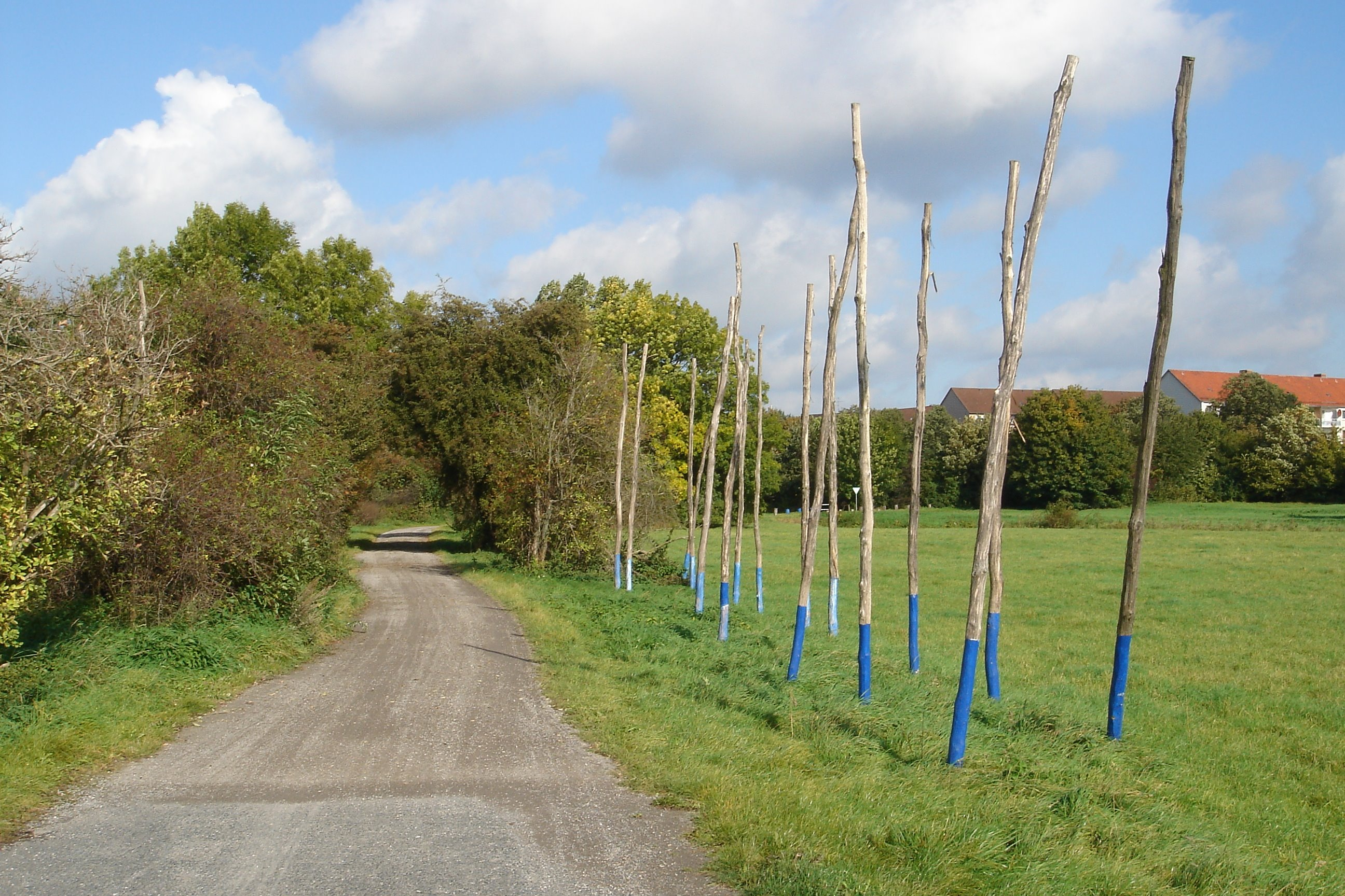 Bicycle trail around Hanover